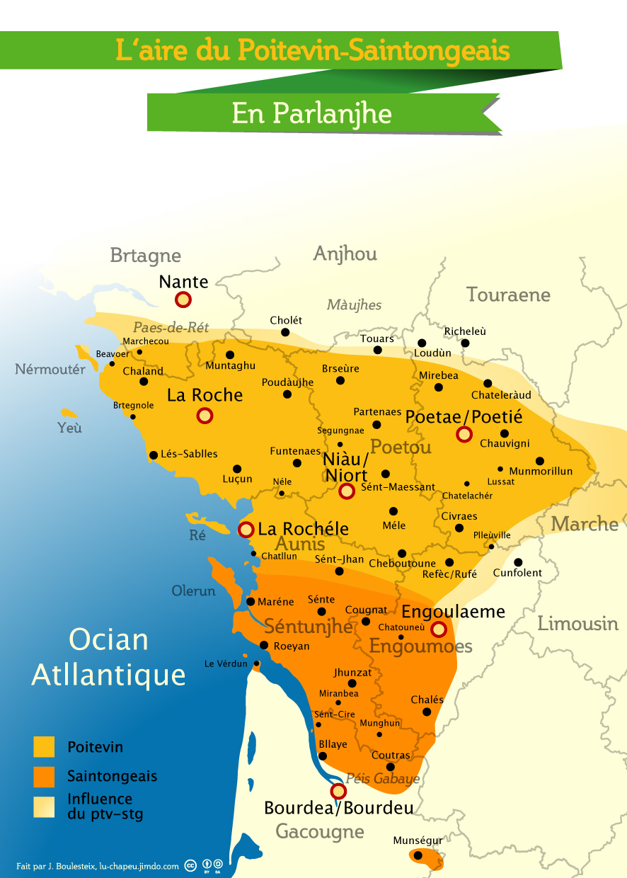 Linguistic area of Poitevin-Saintongeais' dialect, with the city names in "parlanjhe".